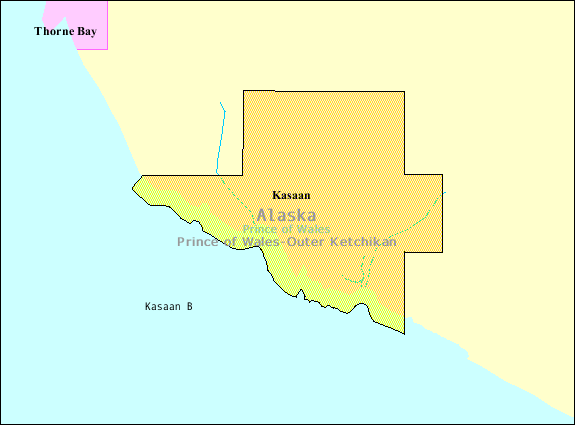 Map of Kasaan, a city in the Prince of Wales-Outer Ketchikan Census Area in the Unorganized Borough in the U.S. state of Alaska, with its boundaries at the time of the 2000 census.